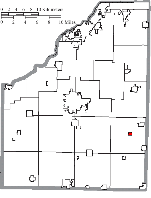 Map of the municipal and township boundaries of Wood County, Ohio, United States, as of the 2000 census, with the location of the village of Wayne highlighted. Township borders are shown only in unincorporated areas in order to differentiate incorporated and unincorporated areas more clearly.